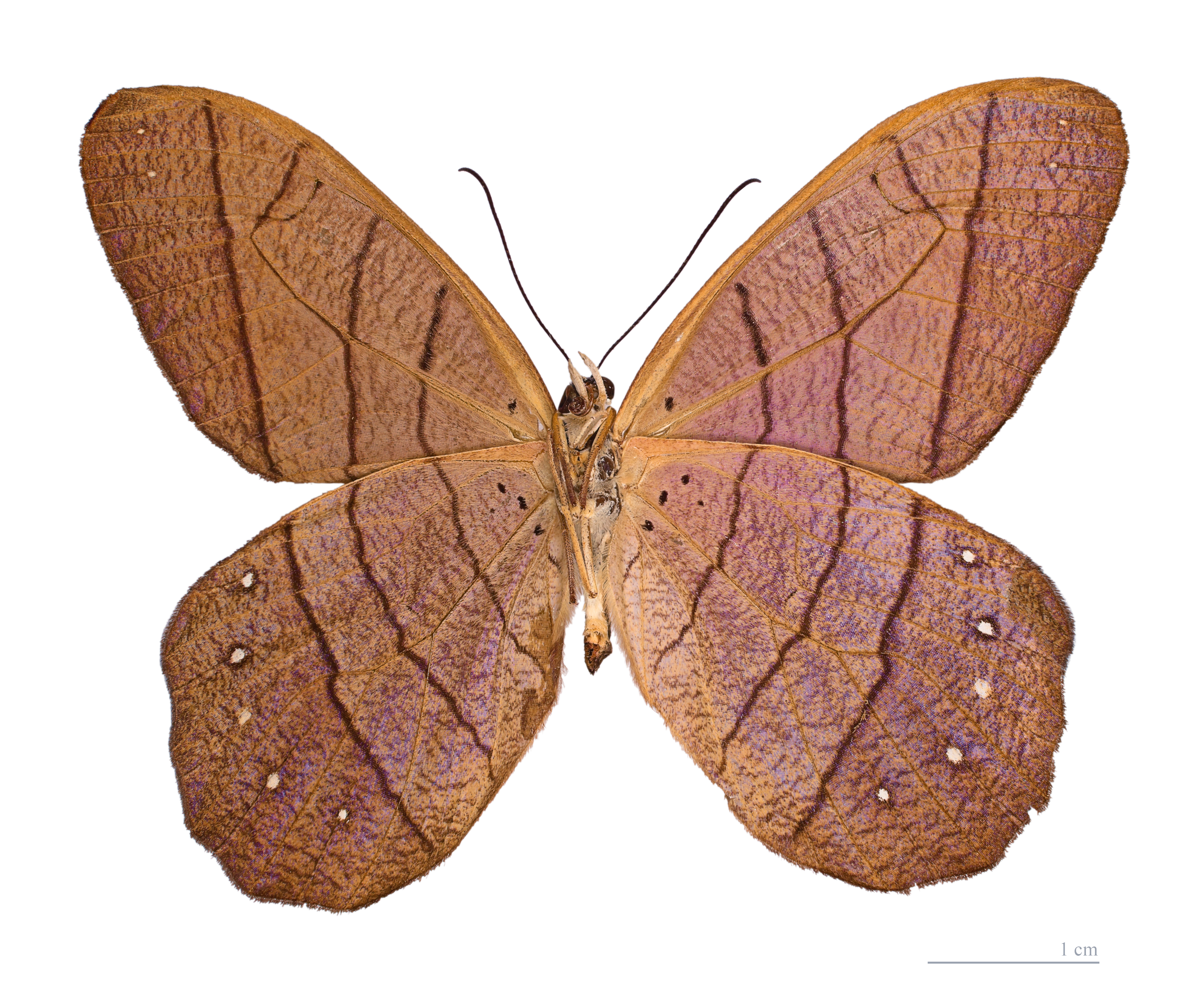 ♂ - △ Ventral side Locality : Cacao, Crique Baguot, French Guiana